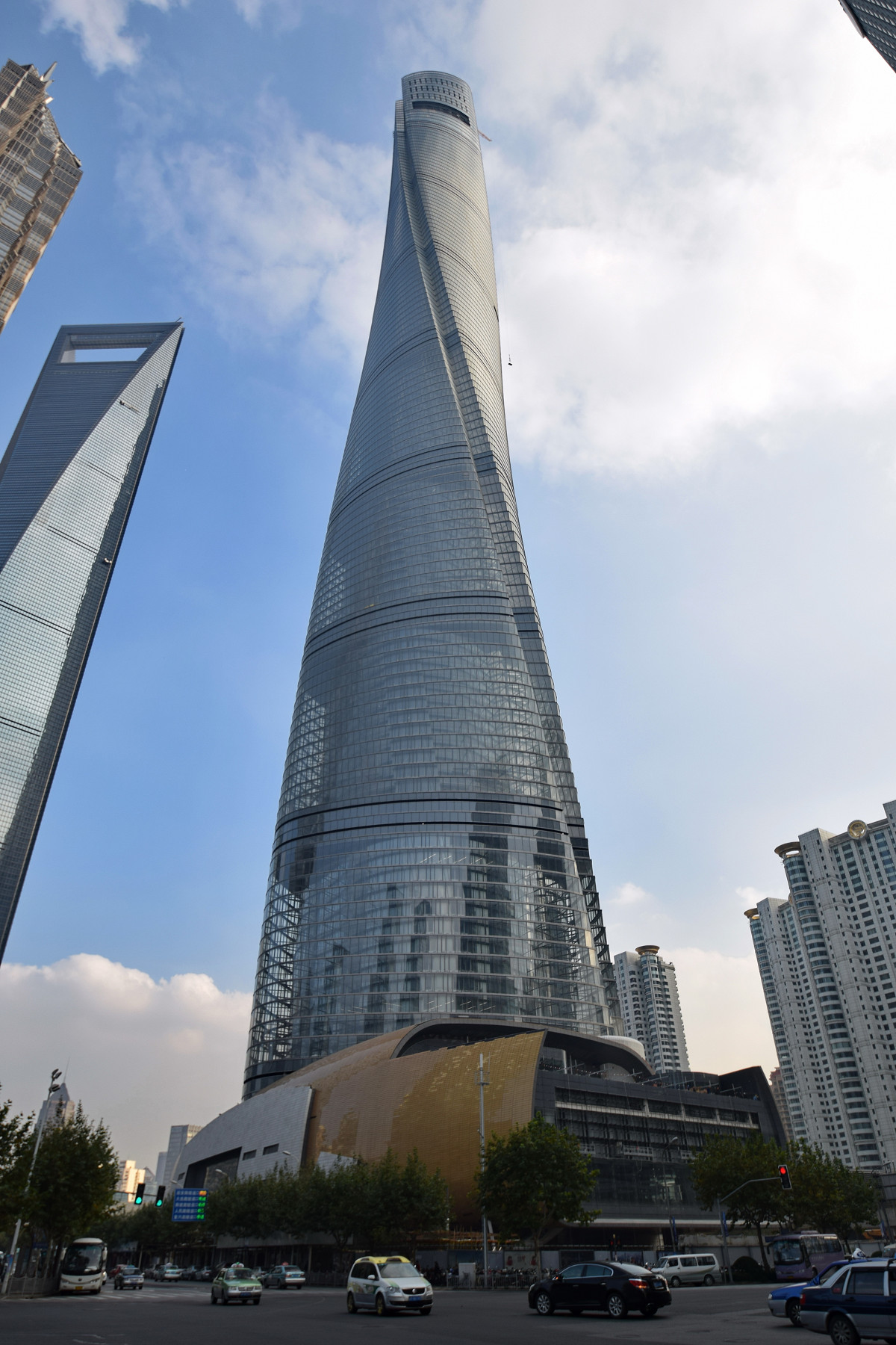 Shanghai Tower, tallest building in China